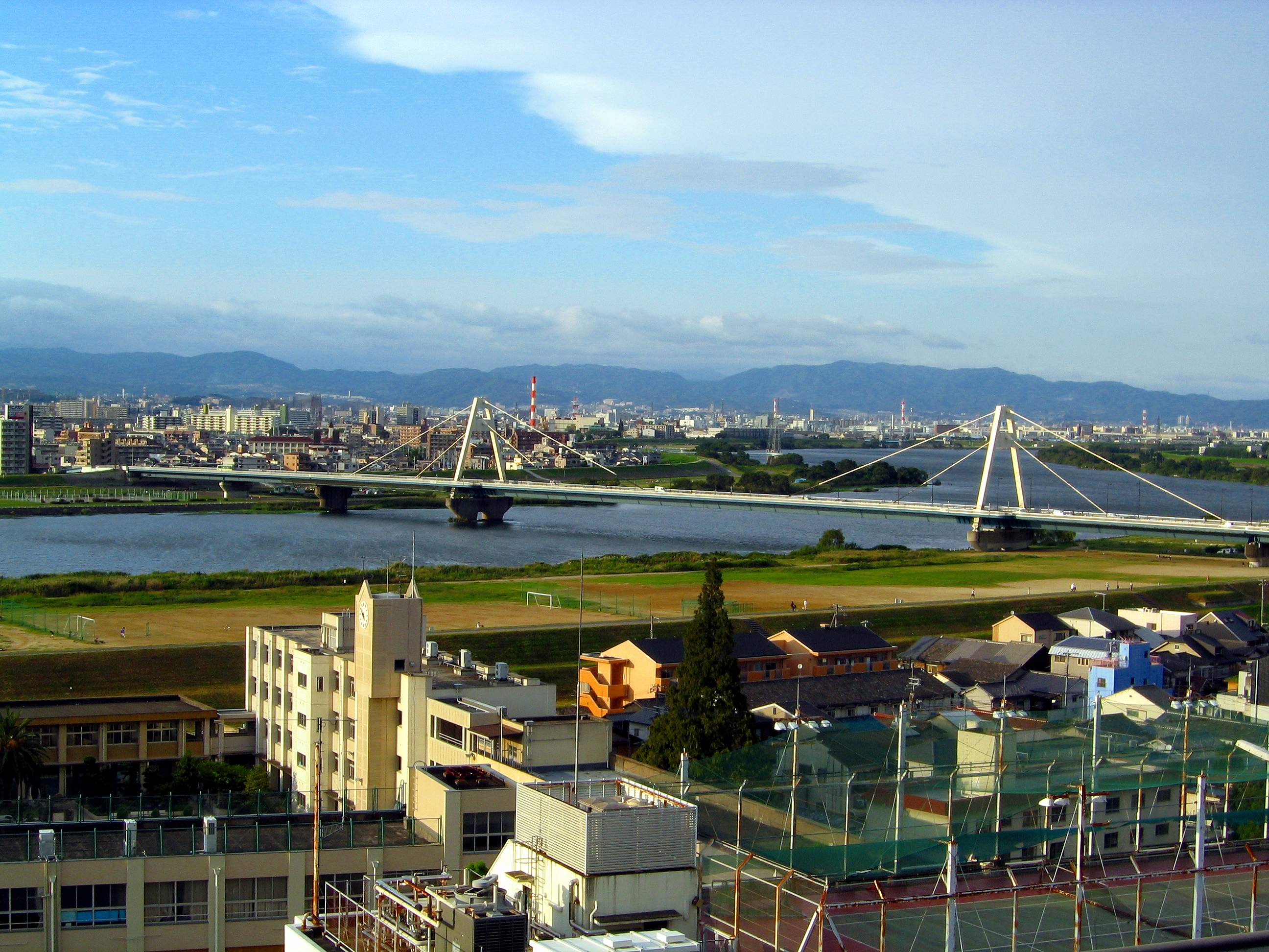 It is a bridge concerning Yodogawa in Osaka-shi in Japan.It is a name called Toyosato Ohashi.Full length of 561m